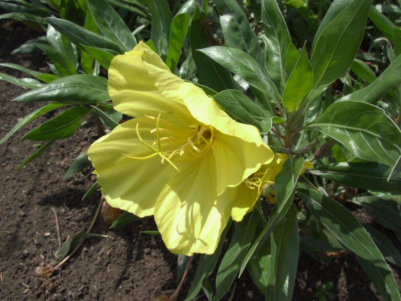 Oenothera missouriensis